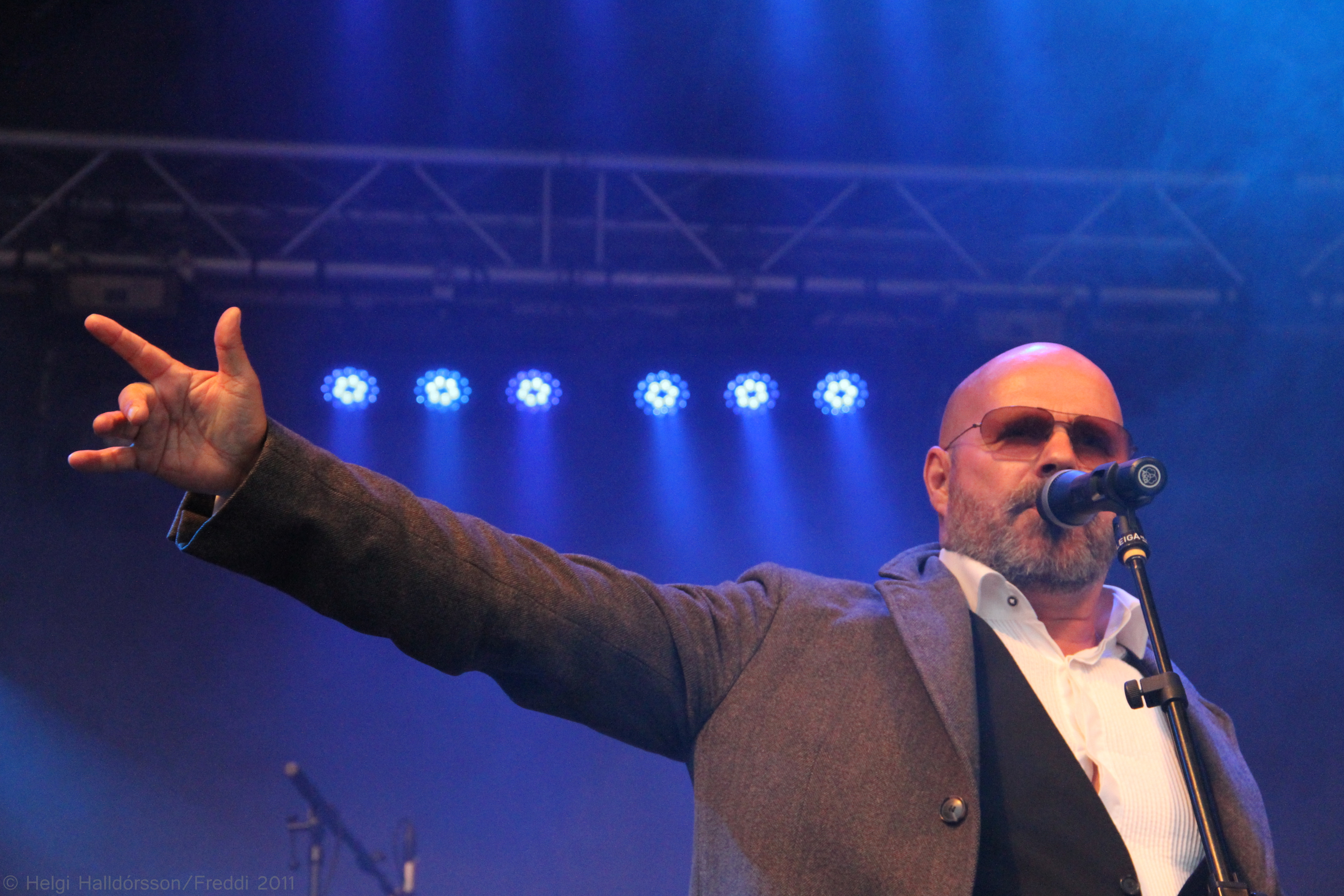 Bubbi Morthens recorded his first solo album in 1979, a blend of rock, blues and reggae, and published it the following year with the title of Ísbjarnarblús which led him to popularity in Iceland due to influences of Iggy Pop and other artists, the changes of music styles during the recording sessions, but particularly due to the lyrics as their content was embedded in the social struggle, especially of the lower classes from the fishing industry to migrant workers.